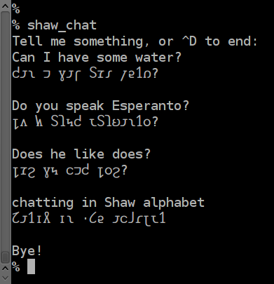 Example session with a script using the Lingua::EN::Alphabet::Shaw Perl module for translation into Shavian alphabet